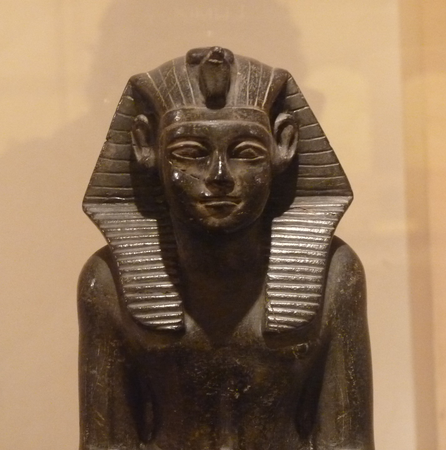 Small statue of pharaoh Khasekhemre Neferhotep I. Microgabbro (diabase) from Faiyum. Reign of Neferhotep I (around 1740 BCE), 13th dynasty, Middle Kingdom. Archeological Museum of Bologna (Italy), KS 1799.